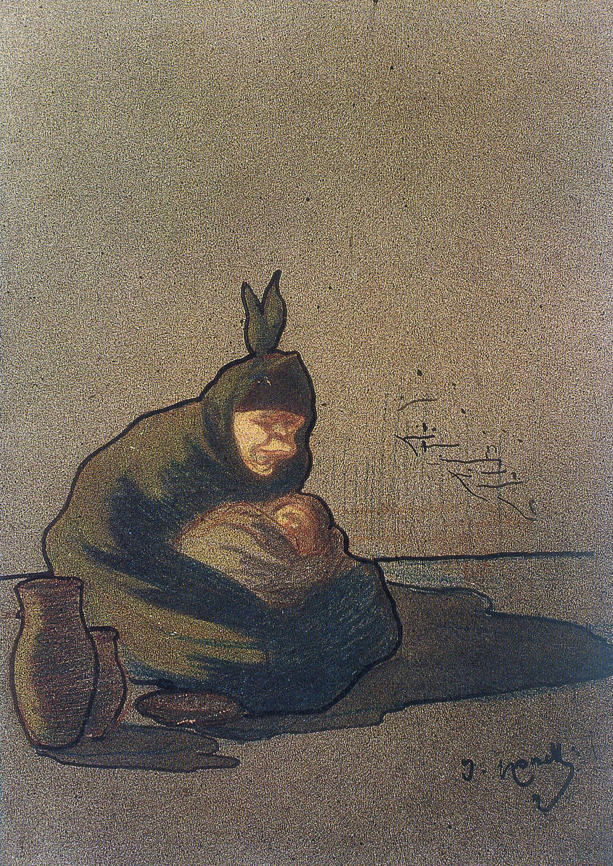 Cretina de Boí (1896), drawing by Isidre Nonell (1872–1911).